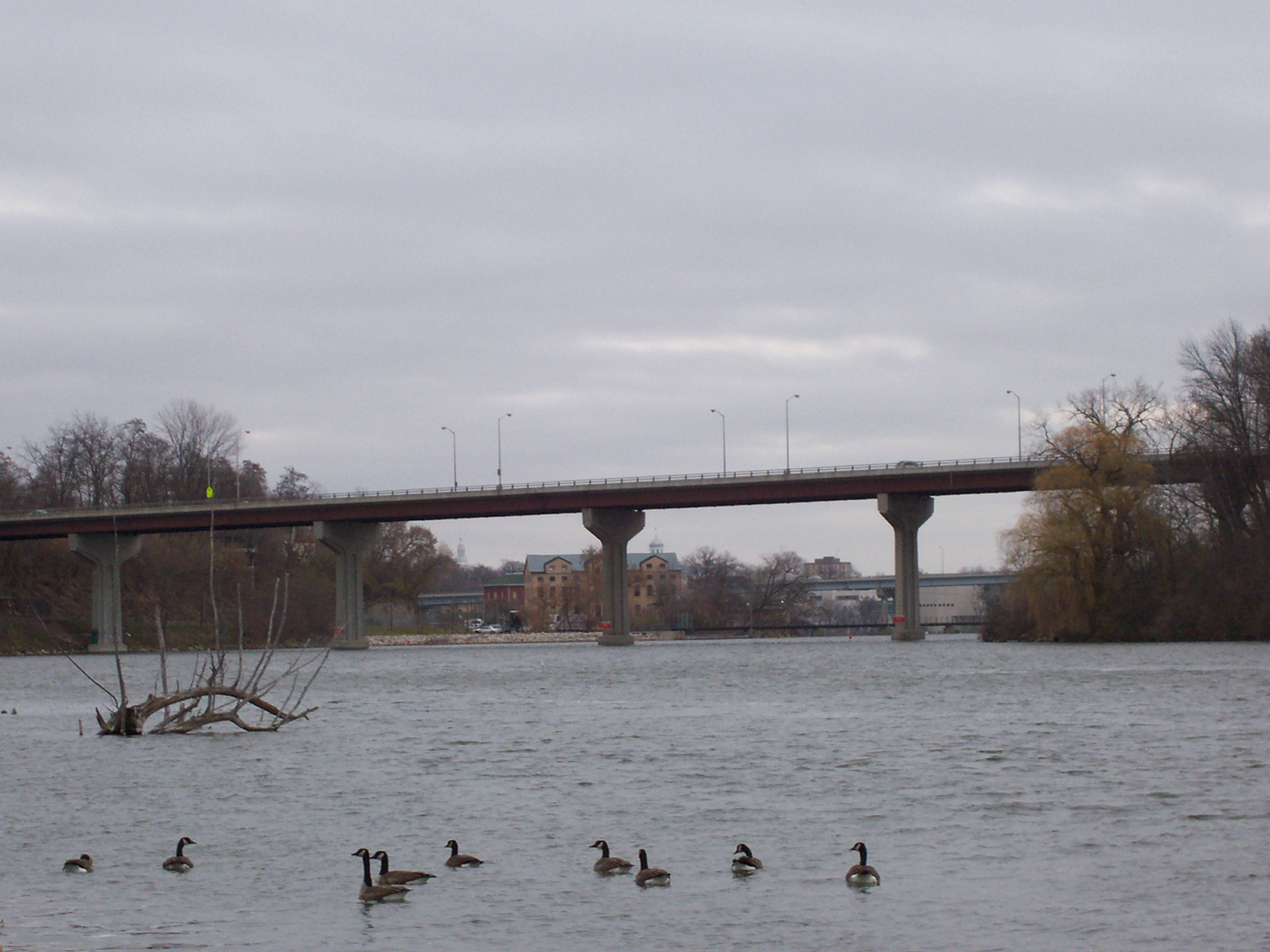 The Highway 47 (Memorial Dr) bridge over the Fox River (Wisconsin) in metro Appleton, Wisconsin, USA. Taken from the west.